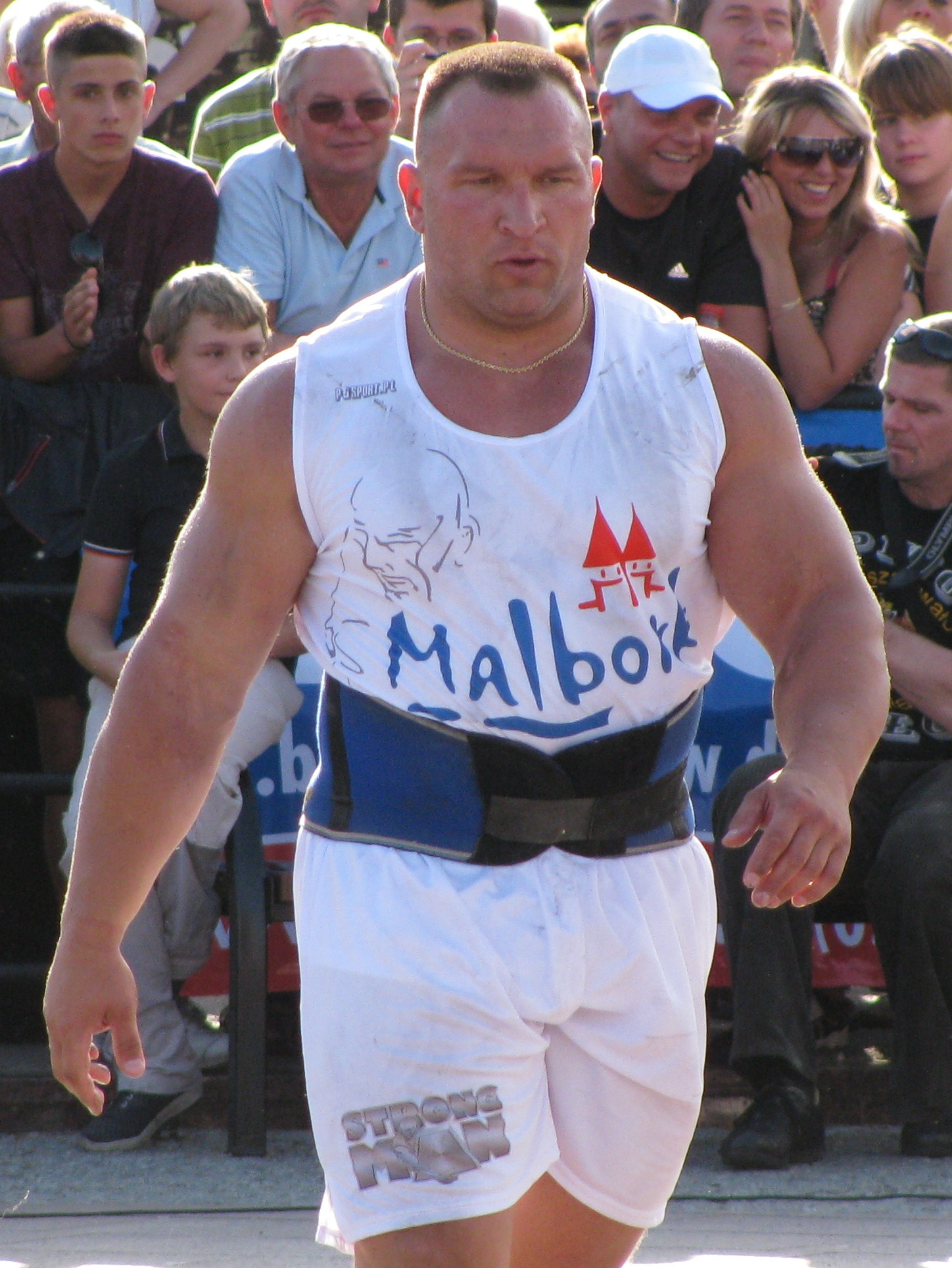 Jaroslaw Dymek - a strength athlete from Poland